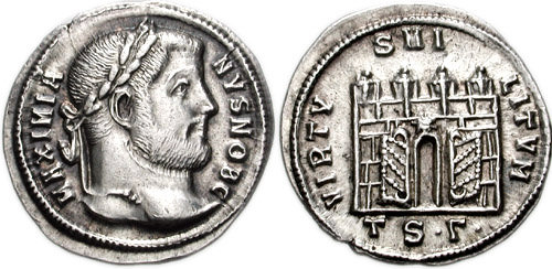 GALERIUS. As Caesar, 293-305 AD. AR Argenteus (20mm, 3.37 gm, 6h). Thessalonica mint. Struck circa 302 AD. MAXIMIA-NVS NOB C, laureate head right VIRTV-S MI-LITVM, four-turreted camp gate; open doors; T S•G•. RIC VI 12b; Pink, Silberprägung, pg. 29; Hunter 42; RSC 227. EF. Rare.